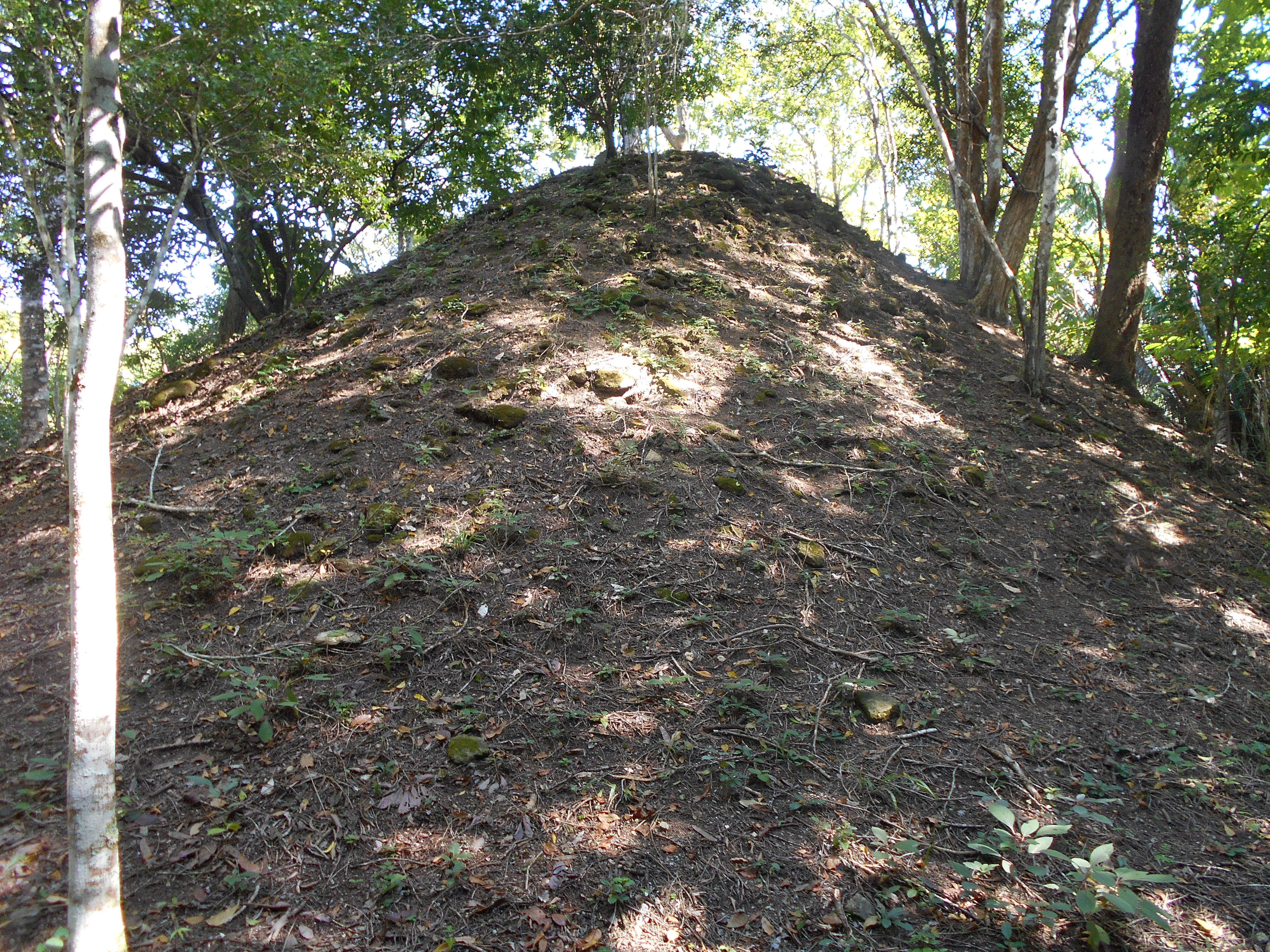 Late Classic Maya ruins of Motul de San José, Petén, Guatemala. Pyramid in Group B.